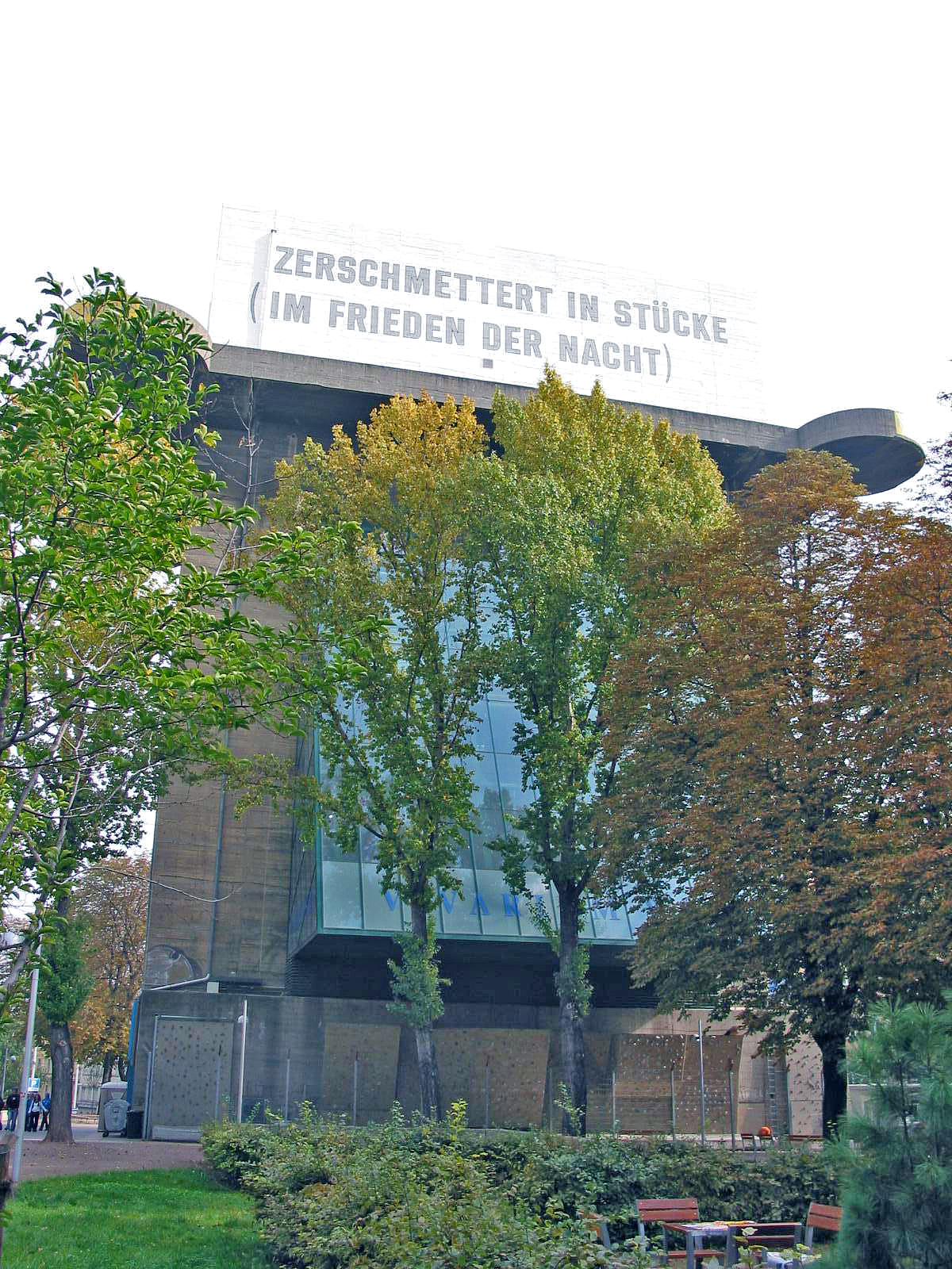 Haus des Meeres ('House of the Sea') - former WW II Flak Tower, now in use as an Aquarium, Vienna, 2005-10-15 Selfmade photo